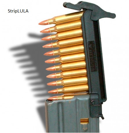 M-16 / AR-15 10-round StripLULA™ loader and unloader for all such metal and plastic 5.56mm / .223 magazines, including PMAG’s and Lancer. Loads from both 10-rd Stripper clips and 10 loose rounds.